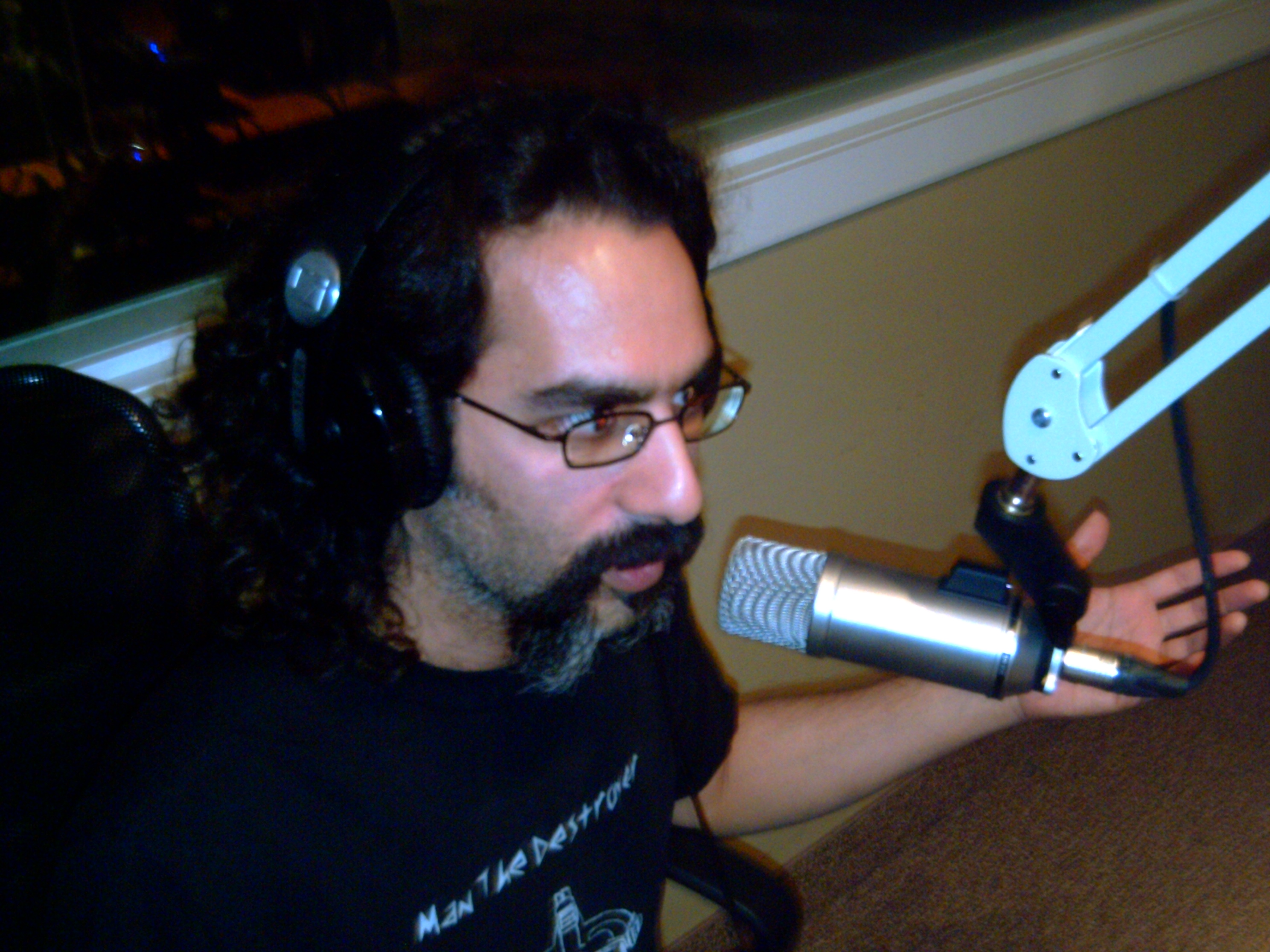 Vikas Kohli with Radio host Johney Brar